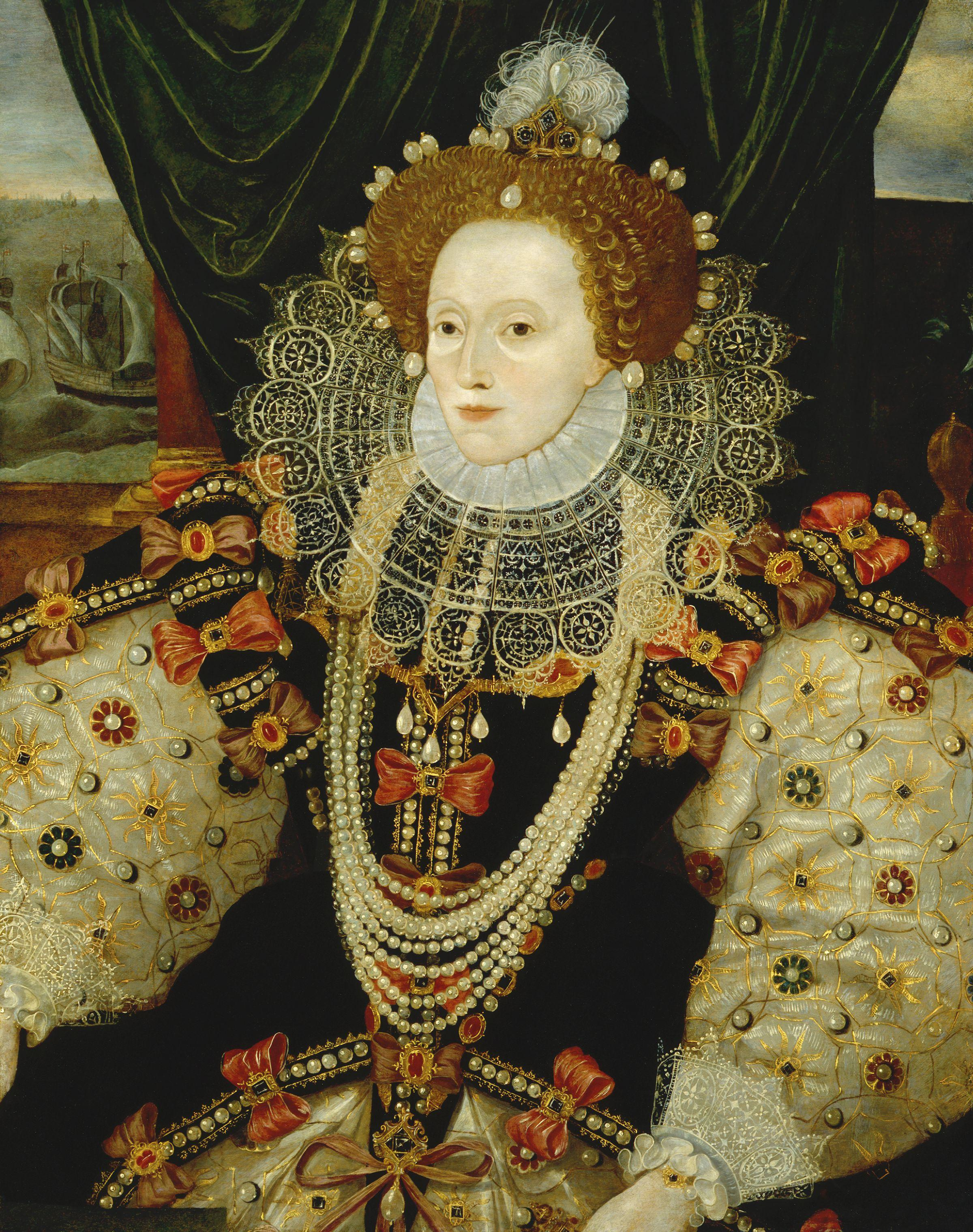 Elizabeth I of England, the Armada Portrait, oil on panel, 38 1/2 in. x 28 1/2 in. (978 mm x 724 mm), National Portrait Gallery. Cut down from a wider version of the Woburn Abbey painting. Other versions of the Armada portrait are by different artists. All images in this batch have been confirmed as author died before 1939 according to the official death date listed by the NPG.